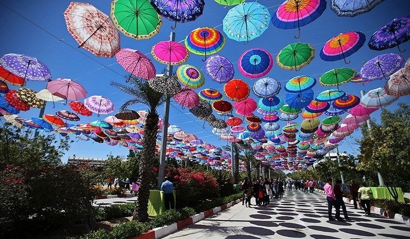 Kish Island during Norouz holidays